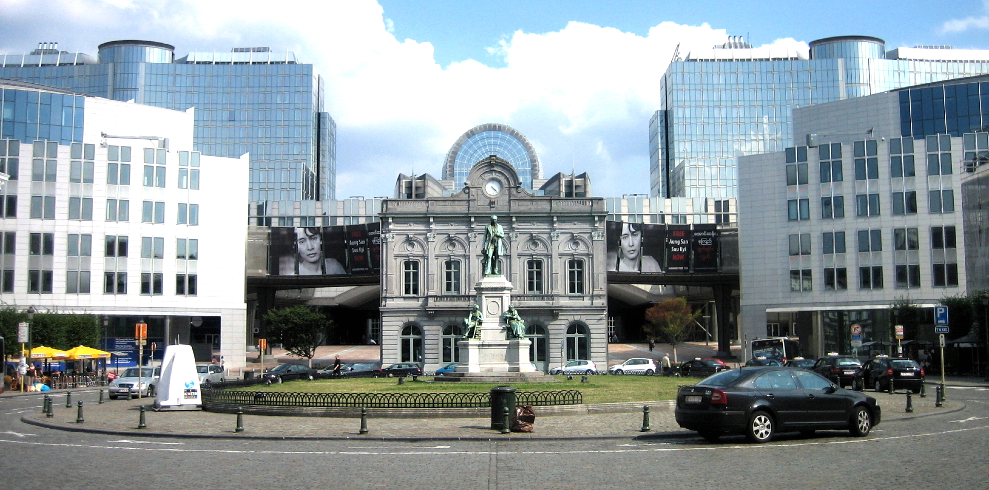 Place du Luxembourg, European Quarter of Brussels (Belgium). View of the European Parliament (western side), including converted station entrance in front) with statue of John Cockerill in foreground.